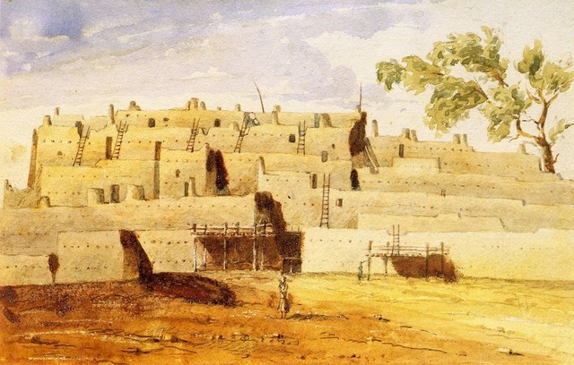 Painting by artist Joseph Horace Eaton.